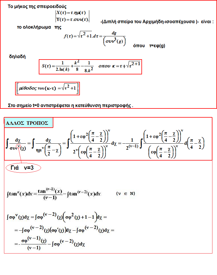 Σπείρα του Αρχιμήδη